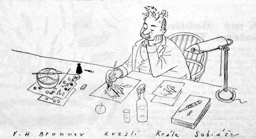 selfportrait drawing the story about the King Sobias